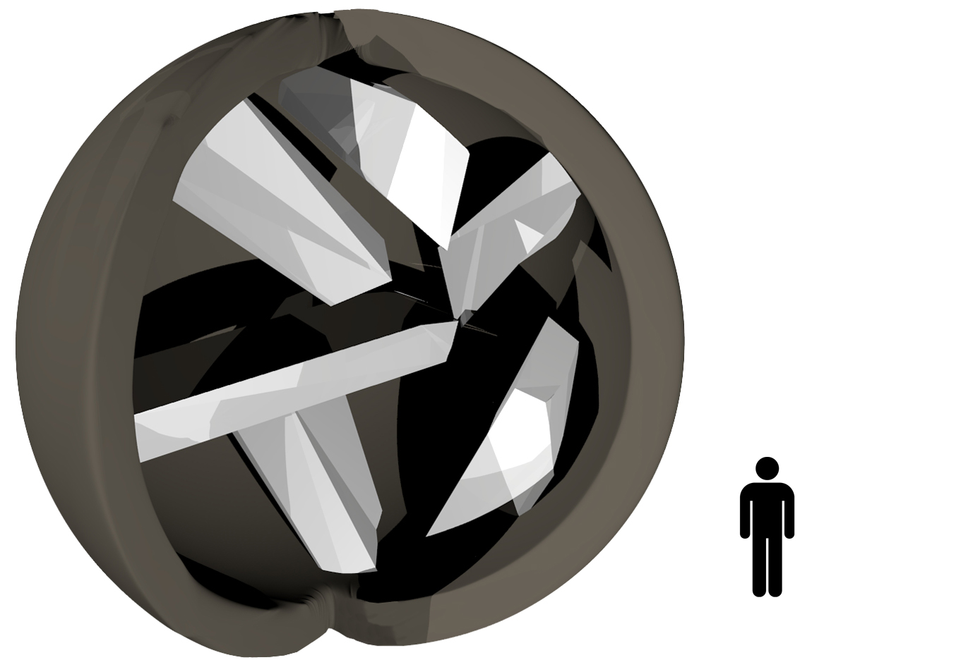 Ratio of the "cristales" cave of Naica and adult human eser. Infographic by Albert Vila and Andreu Módenes